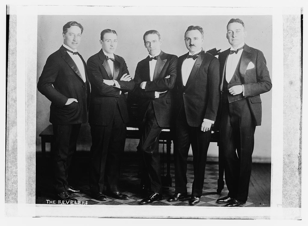 Lewis James and Elliot Shaw and Wilfred Glenn as the Revelers circa 1925